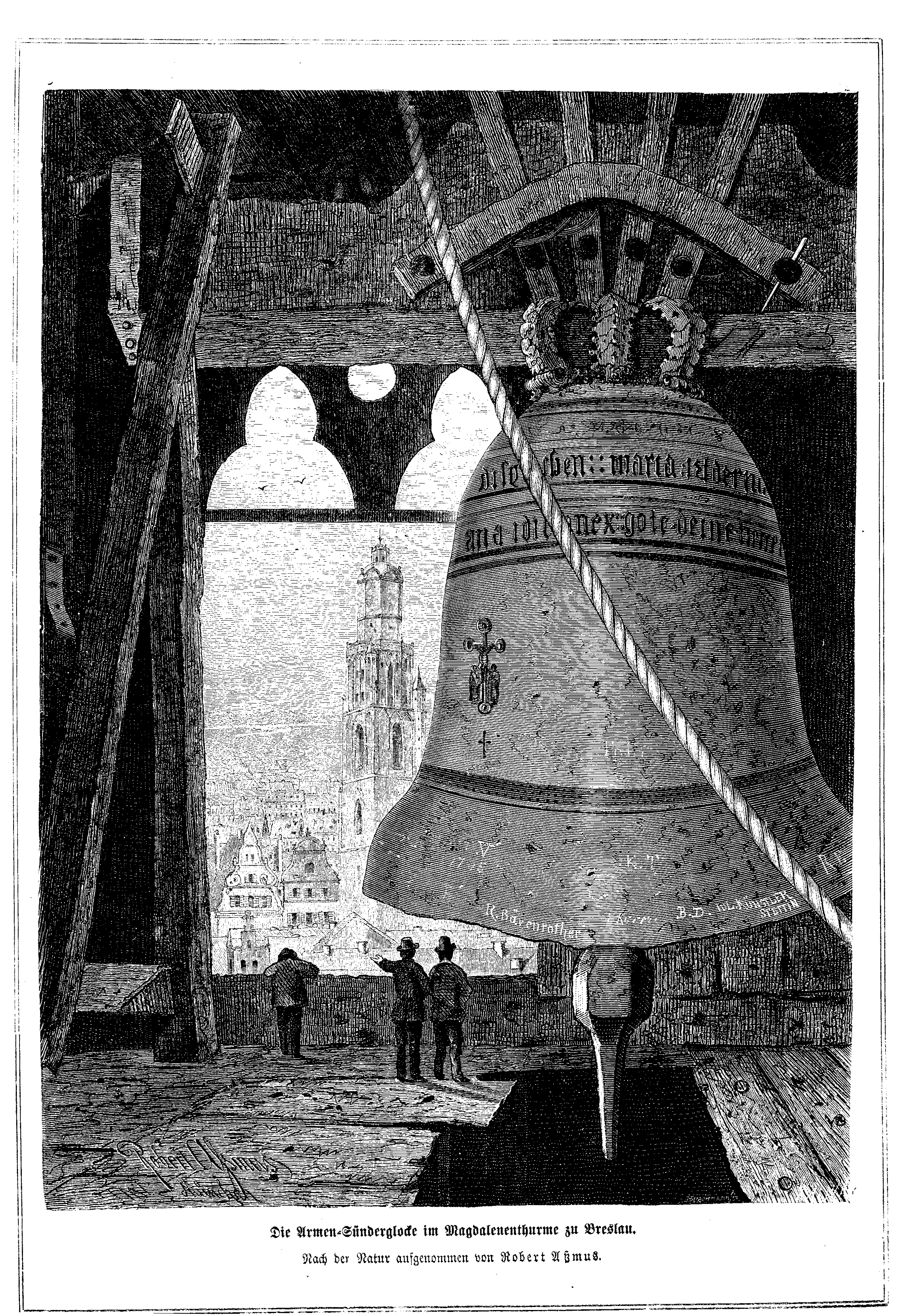 Sinner Bell in Maria-Magdalena church in Wrocław; in the bacground - tenements in the Ring and the steeple of today's St. Elisabeth Garrison Church.